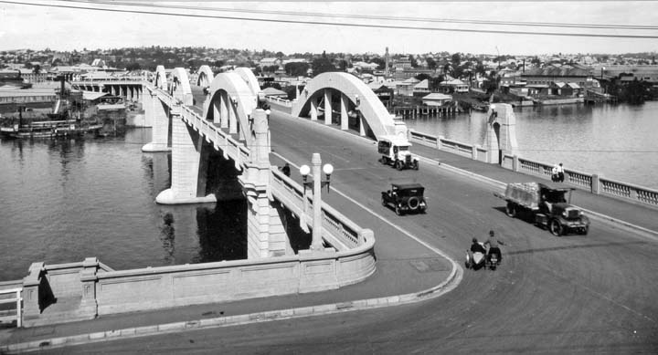 William Jolly Bridge, Grey Street, Brisbane. (This bridge is also known as Grey Street Bridge, South Brisbane)